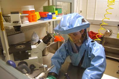 Biosafety level 4 hazmat suit: researcher is working with the Ebola virus